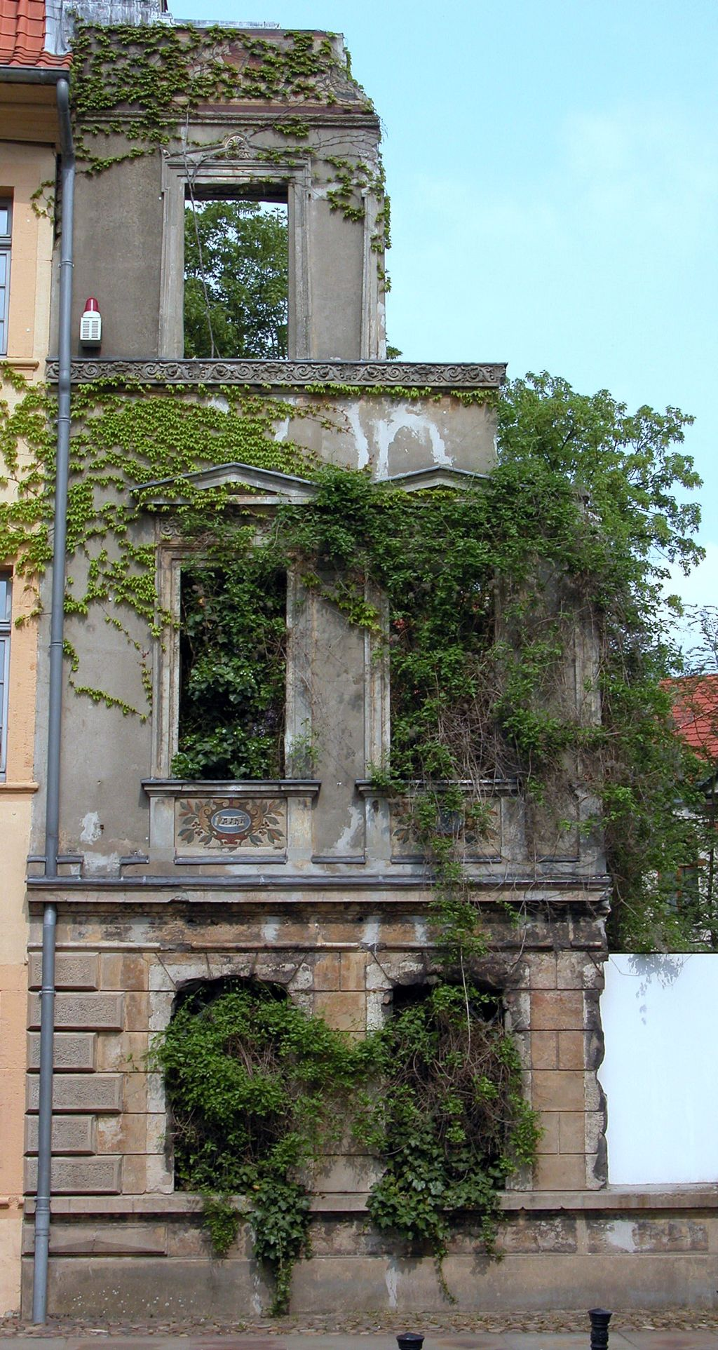 Brunswick, Germany: Ruins of the “Handelshof” Hotel, destroyed in World War II (picture taken in Mai 2006).